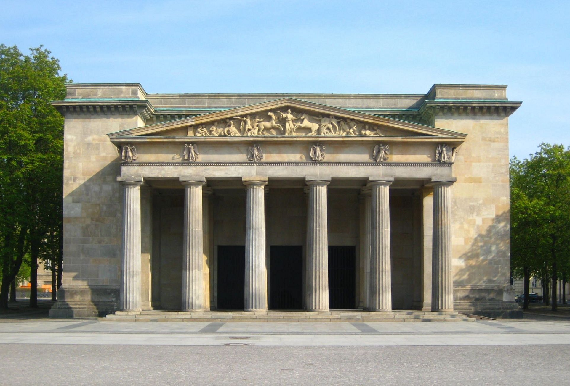 The New Guard House (Neue Wache), 1816-1818 by Karl Friedrich Schinkel; since it serves as the "Central Memorial of the Federal Republic of Germany for the Victims of War and Tyranny". The New Guard House has been dedicated as a historic landmark.